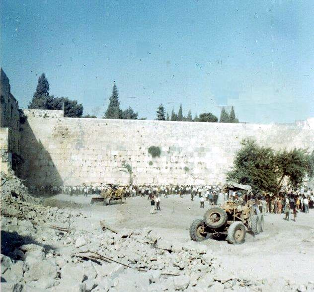 July 1967: clearing the plaza in front of the kotel